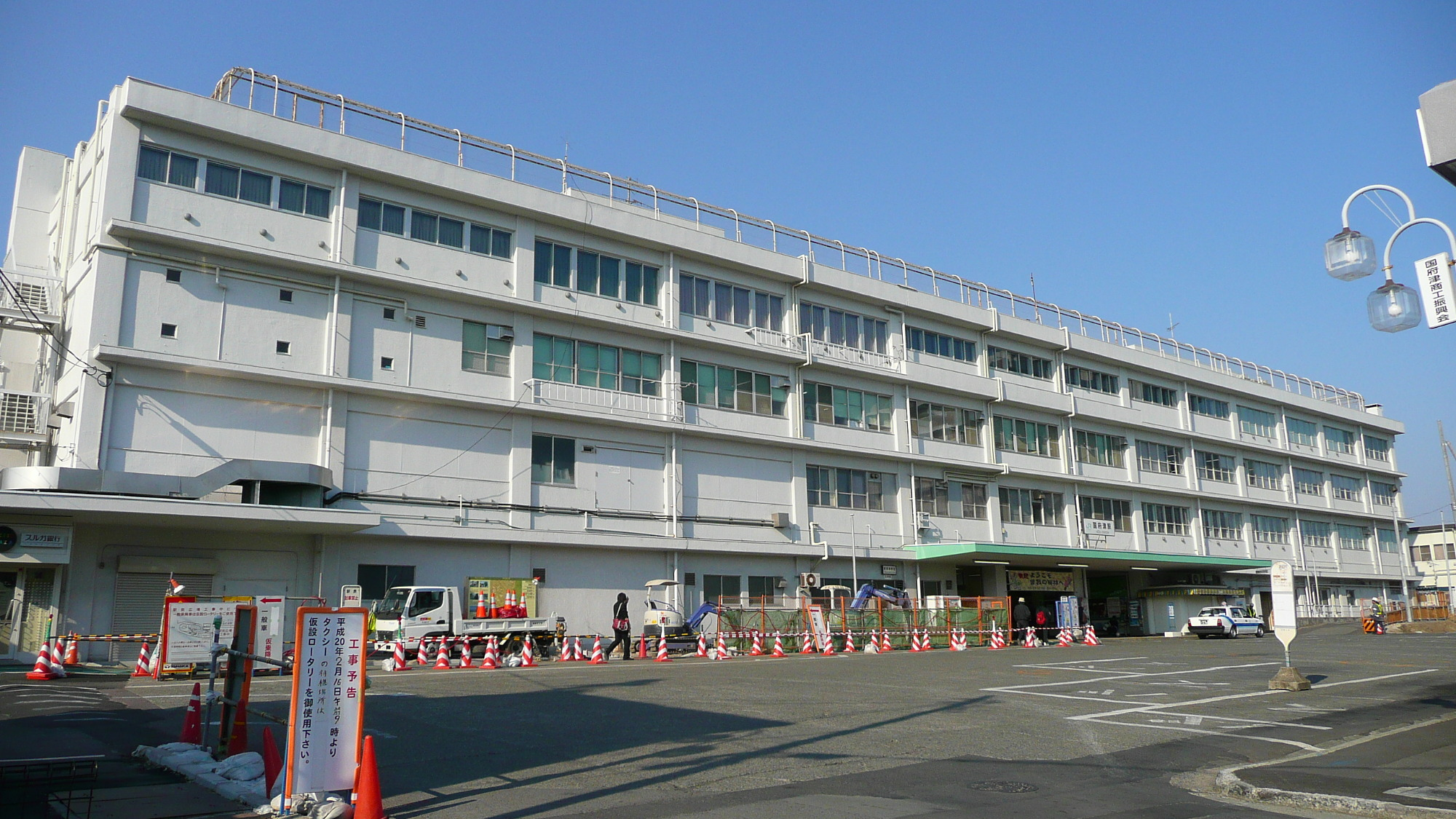 East Japan Railway and Central Japan Railway,Kozu Station. /国府津駅駅舎